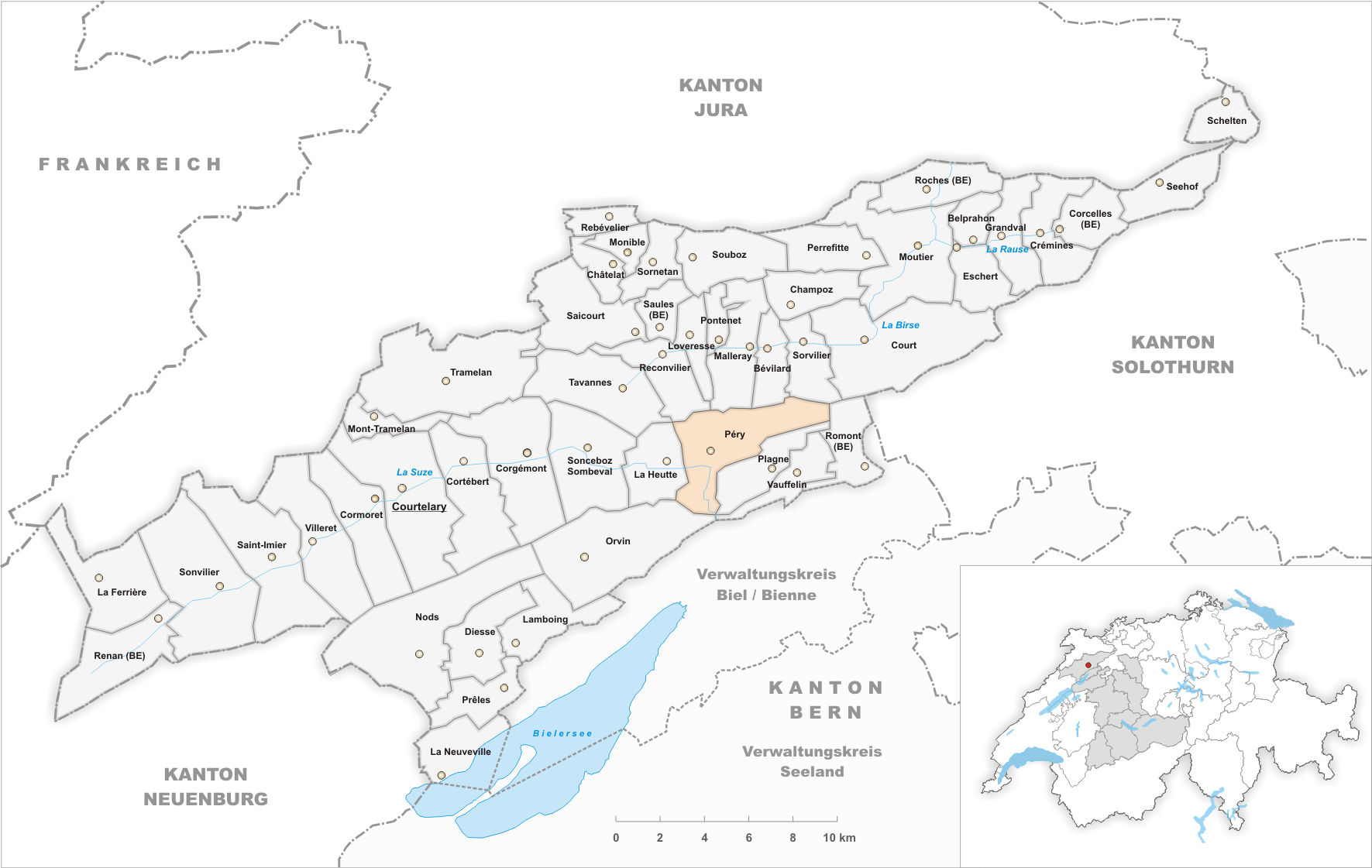 Municipality Péry